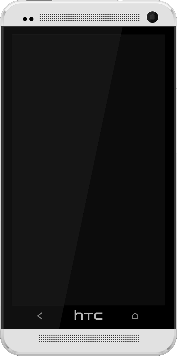 The 2013 flagship HTC One smartphone in Glacial Silver.